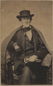 Jonas R. Emrie, member of United States House of Representatives from Ohio. Carte-de-visite , 1857-1869, Collection of US House of Representatives.